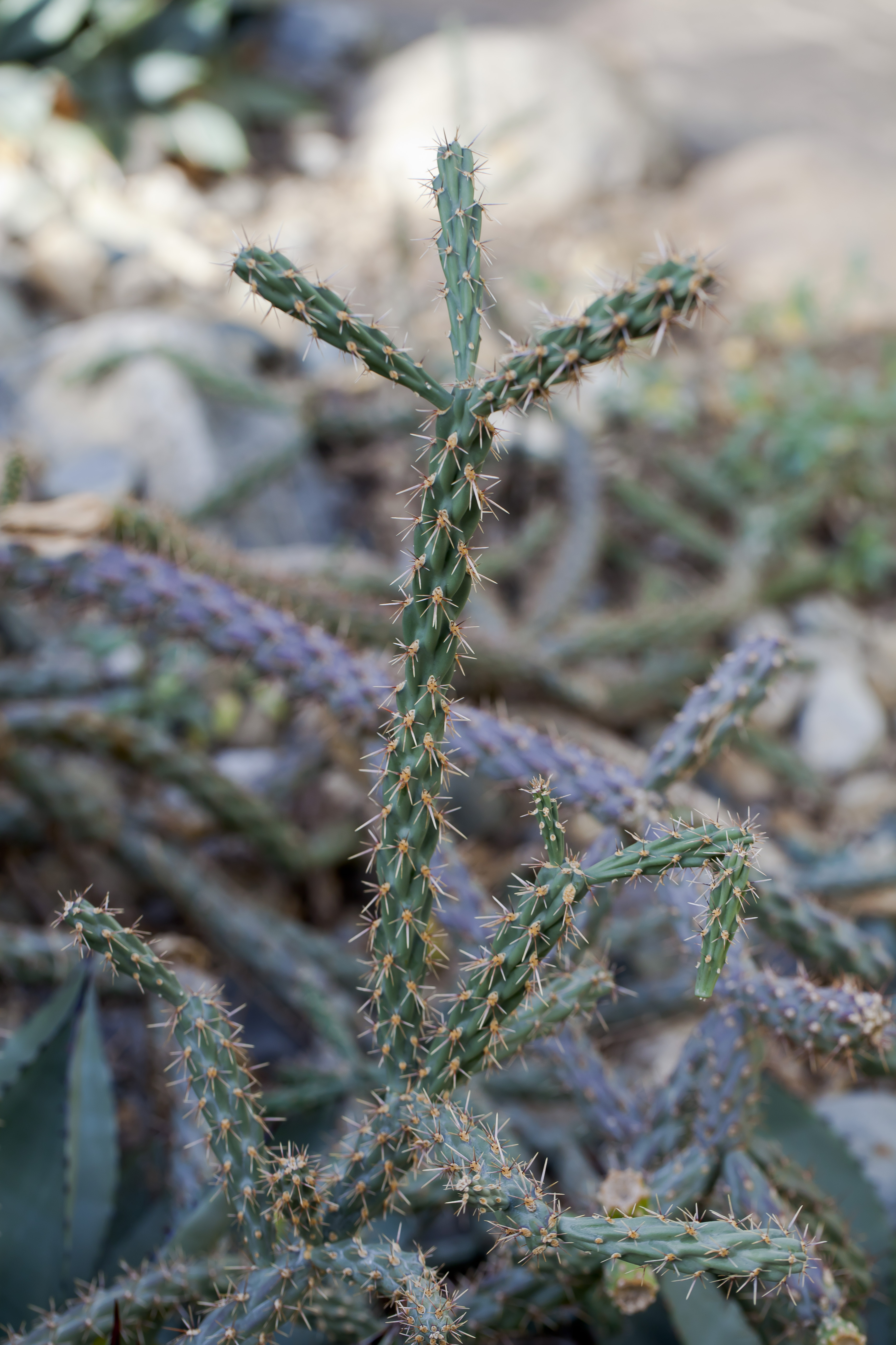 ', Botanic Conservatory, Fort Wayne, USA